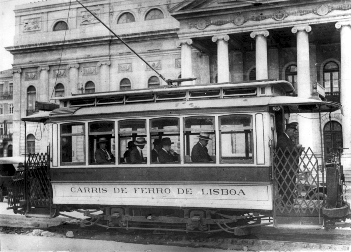 electric tramway near Rossio